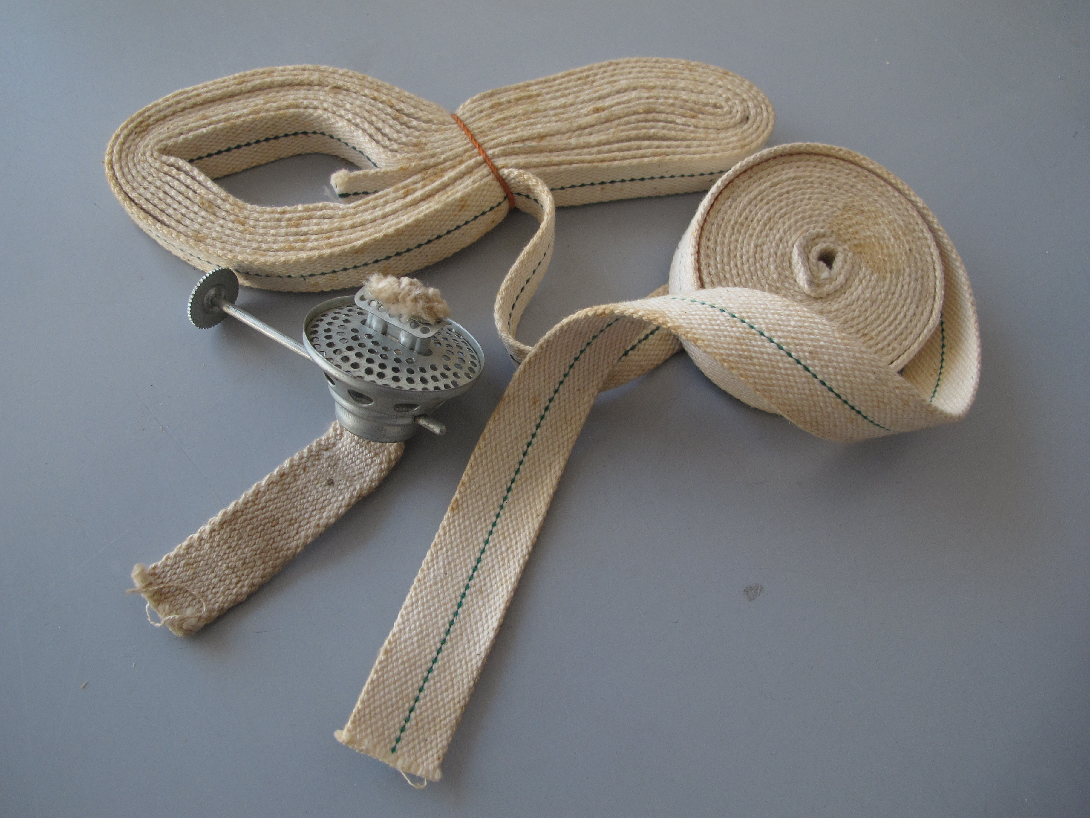 Docht